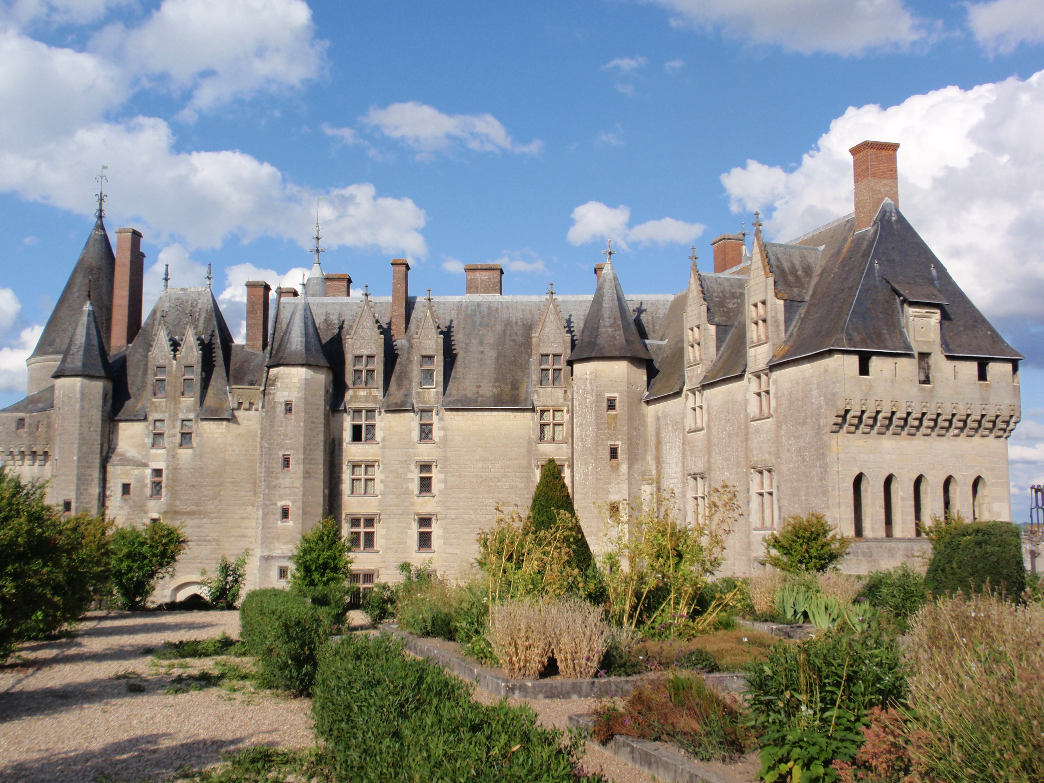 Park facade of the Château de Langeais in the Loire Valley